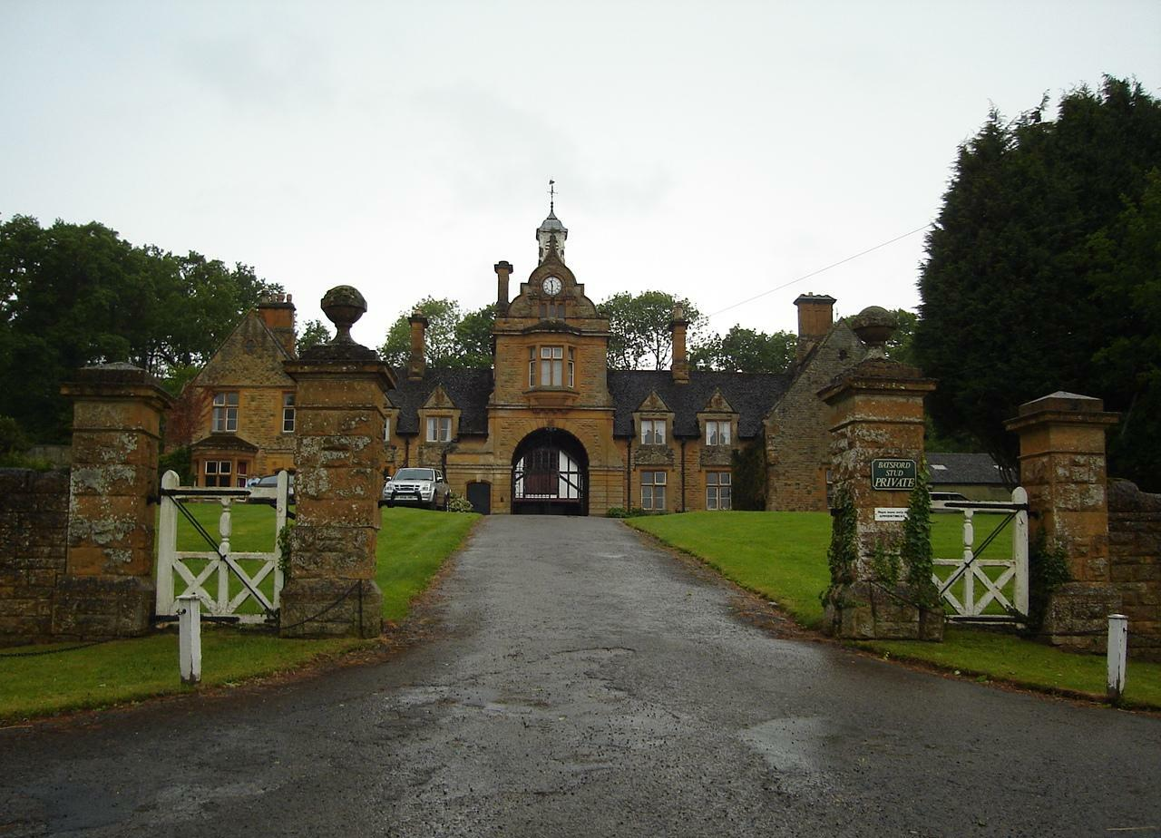 Batsford Park stables, Batsford, Gloucestershire, England.